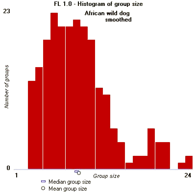 Hunting pack size distribution of the African wild dog (Lycaon pictus). Data obtained from the literature (Creel S 1997. Cooperative hunting and group size: assumptions and currencies. Animal Behaviour, 54, 1319-24). Rough data were smoothed so as to eliminate the peaks at 10 and 20 caused by rounding.